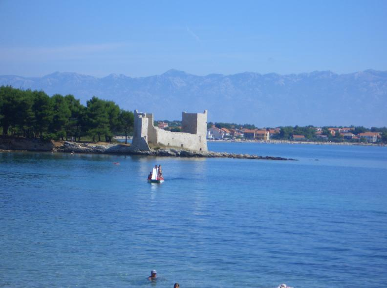 Vir bastion